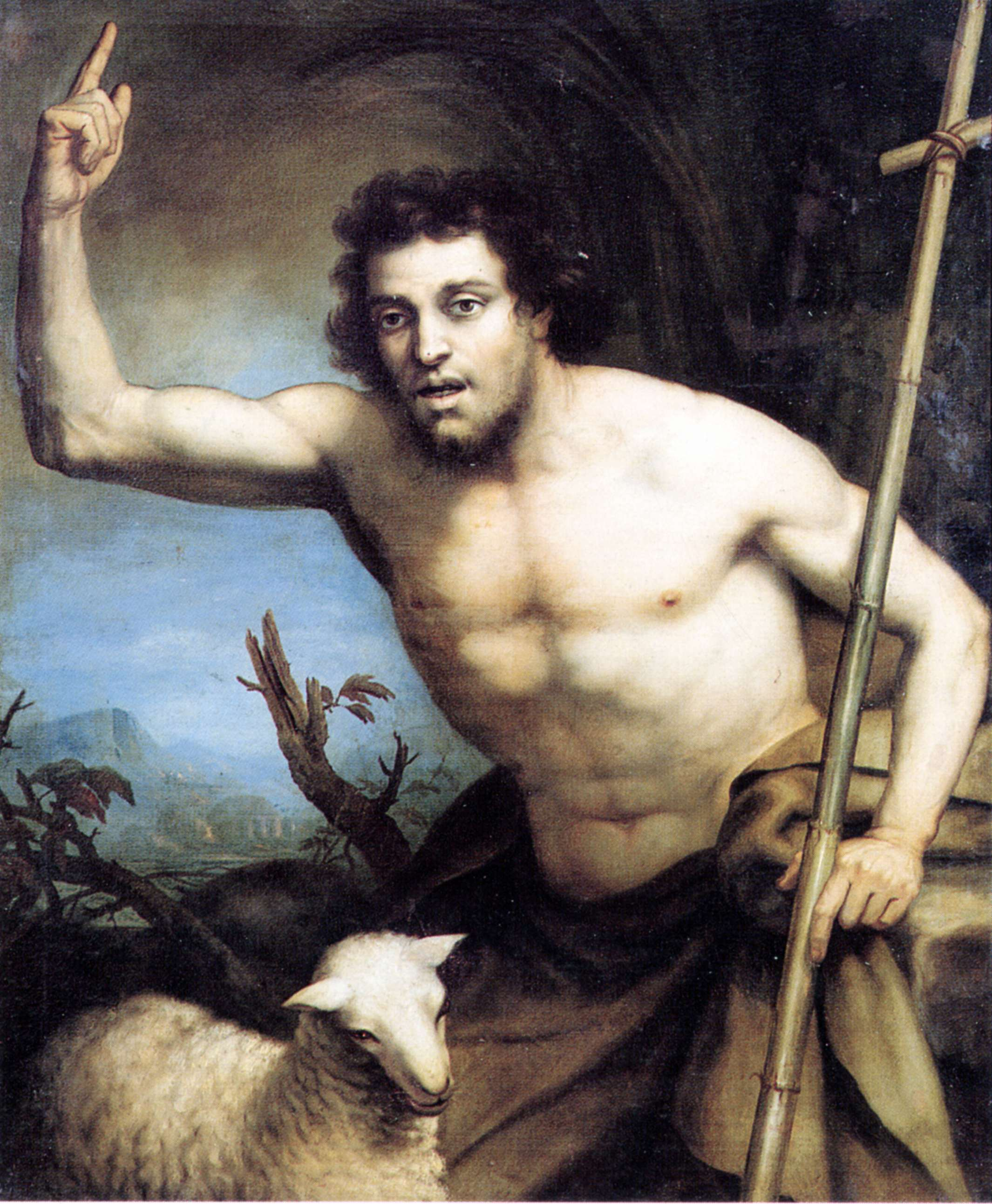 Saint John Baptist